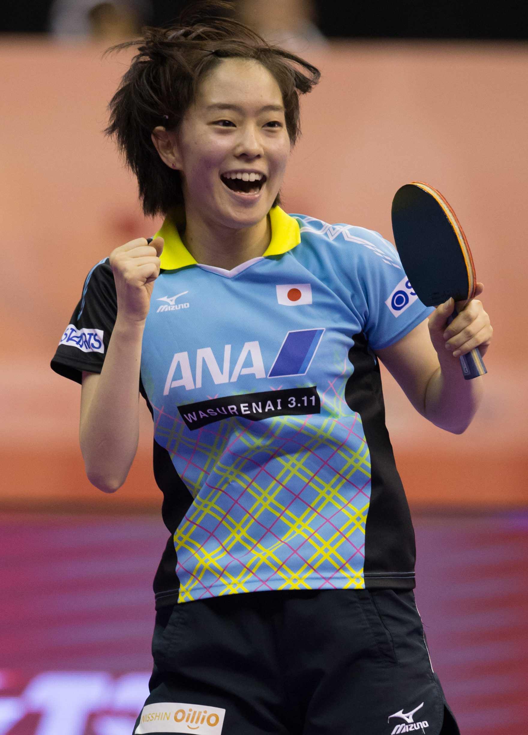 Kasumi Ishikawa during the en:2016 World Team Table Tennis Championships